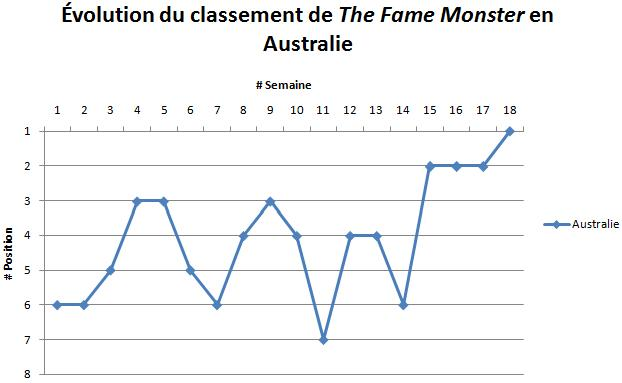 Evolution of the chart of The Fame Monster in Australia.